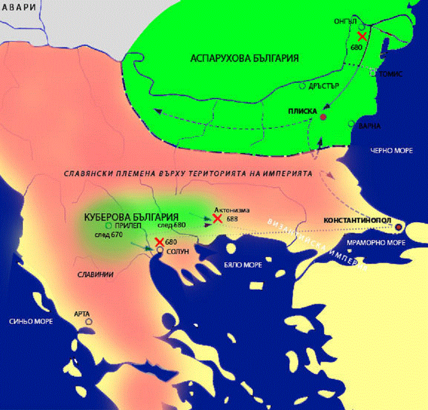 Bulgaria of Kuber - detailisation